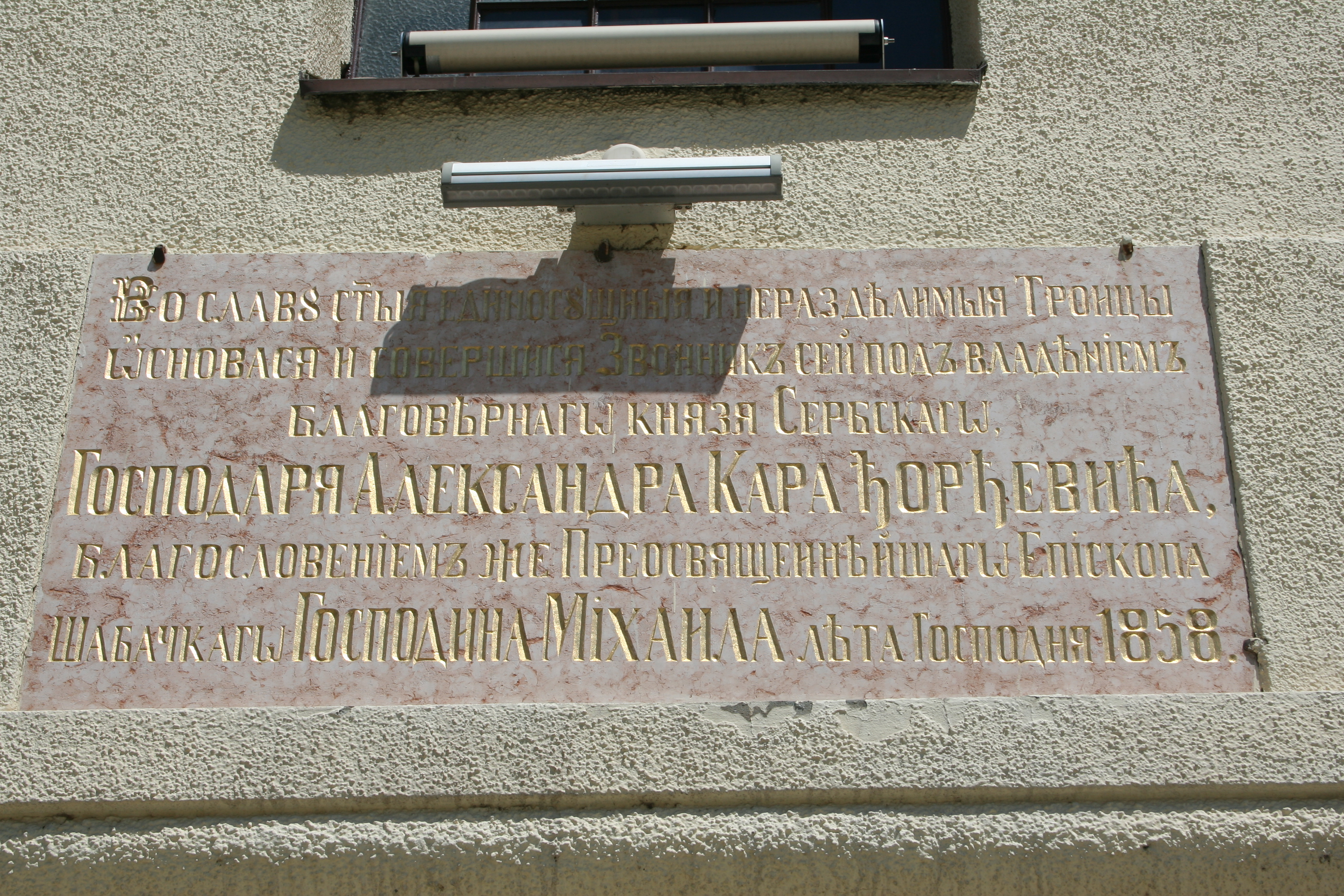 Church of the apostles Saint Peter and Saint Paul